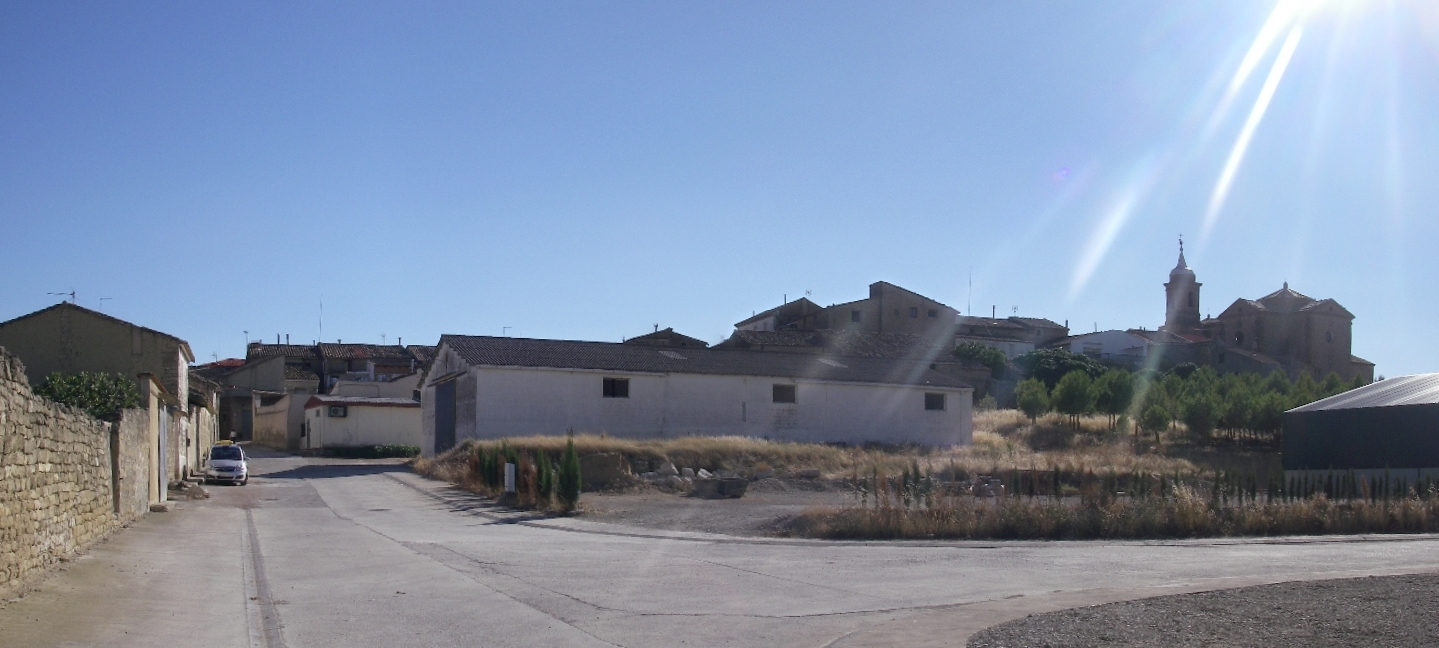 View of Sierra de Luna (Zaragoza, Aragon, Spain)